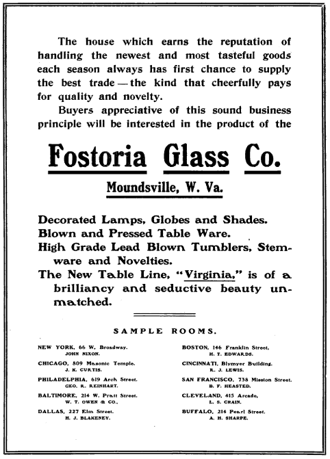 Full page advertisement by Fostoria Glass Company in January 1906 edition of Glass & Pottery World